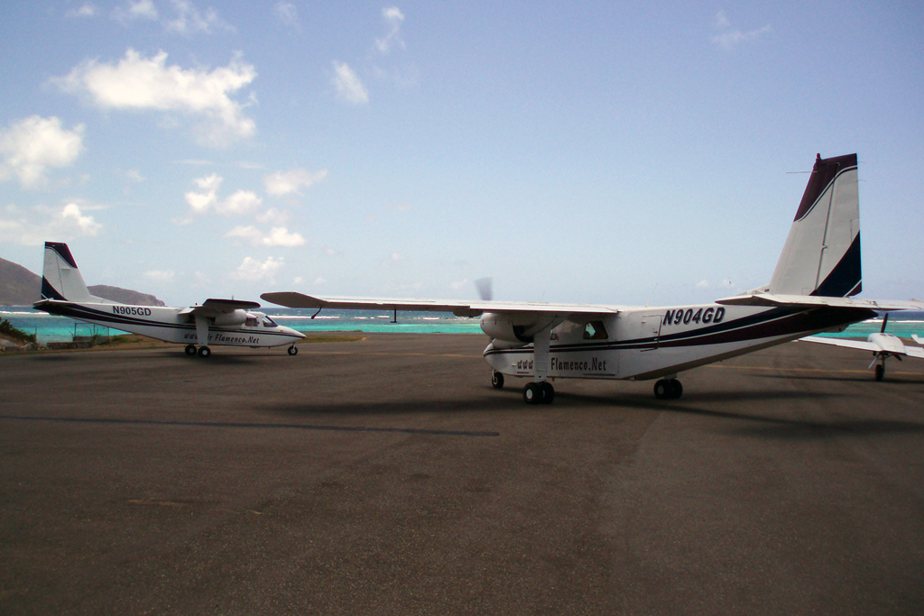 Air FlamencoBritten Norman Islanders in Virgin Gorda BVI